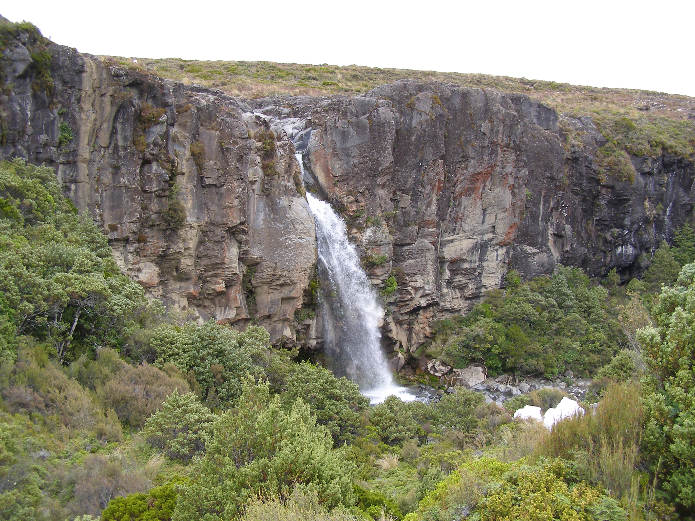 Taranaki Falls spills over rifts in the ground formed by eruptions from Mt. Ruapehu, site of Mt. Doom in Lord of the Rings